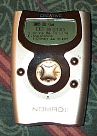 photo of a Nomad II, taken by Hoshie, playing Evanescence's hit 'Bring Me to Life'. Photo is public domain.